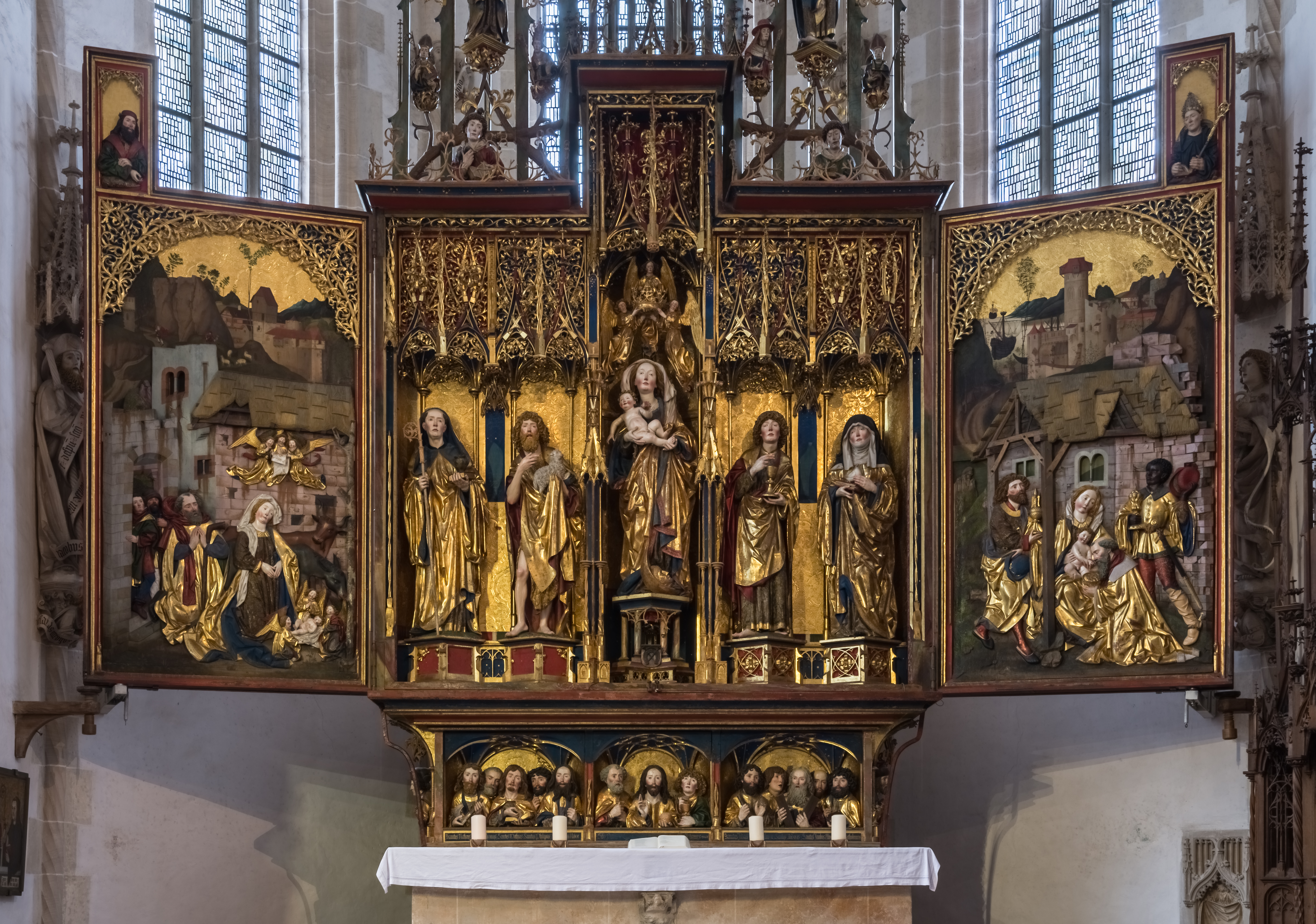 Winged altar at Blaubeuren Abbey church, Baden-Württemberg, Germany. Ulm Workshop (arrangement and ornaments by Jörg Syrlin the Younger, statues and reliefs by Michel Erhart), 1491–94.